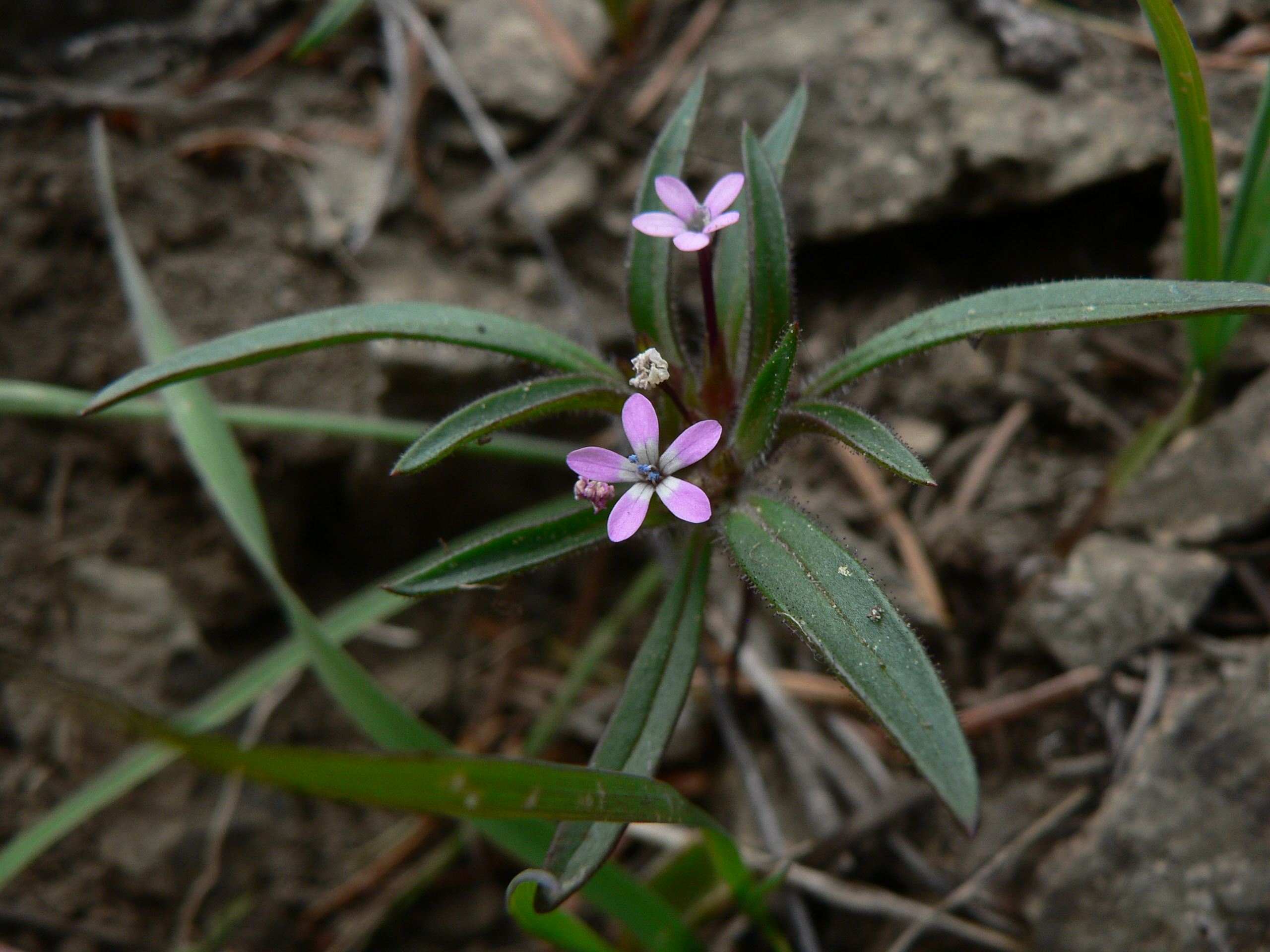 Staining Collomia, Yellow-Staining Mountain-Trumpet